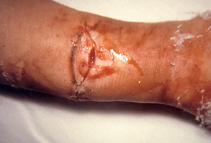 "Wound botulism involvement of compound fracture of right arm. 14-year-old boy fractured his right ulna and radius and subsequently developed wound botulism."